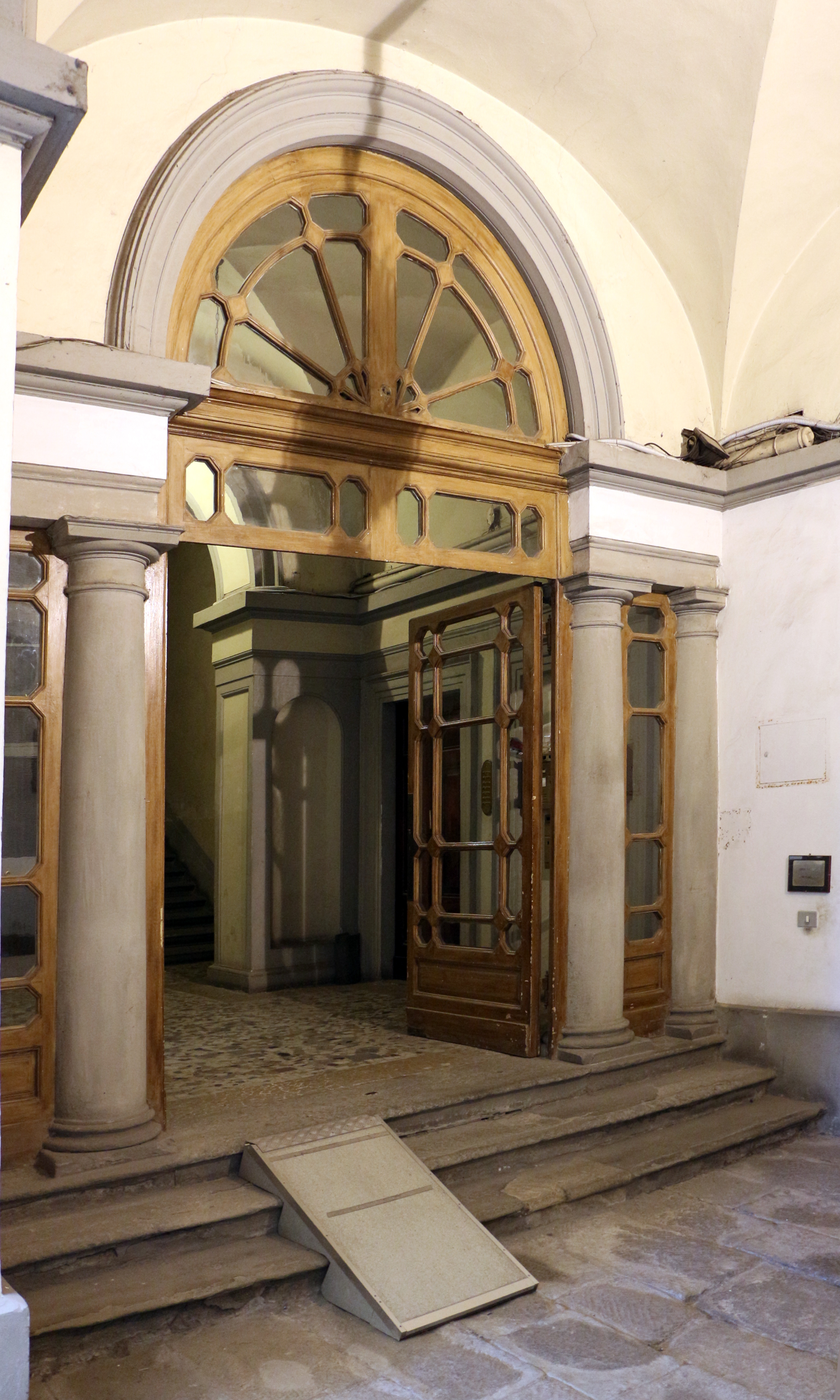 Palazzo Wagnière-Fontana